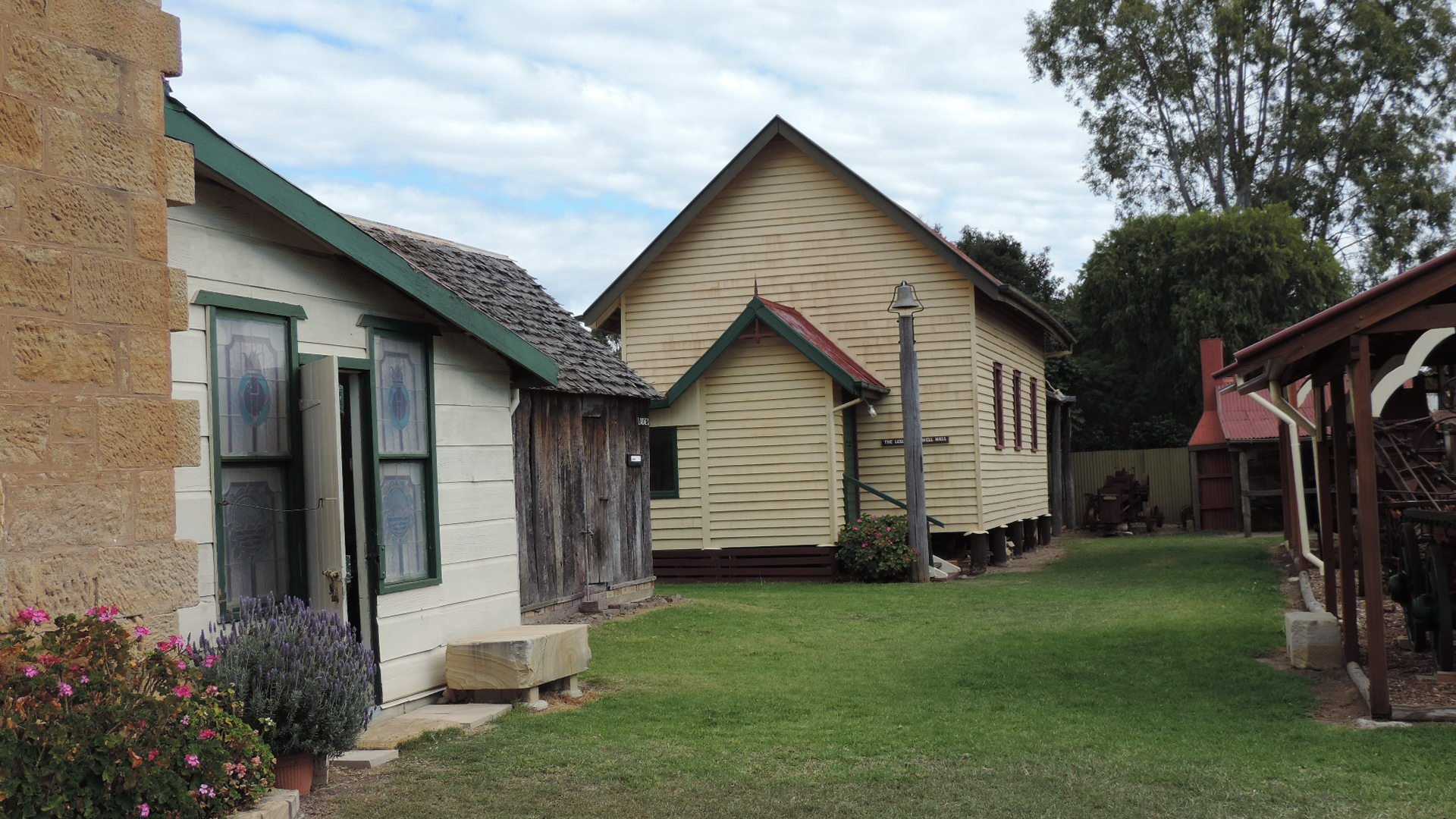 Willowvale Presbyterian church, now relocated to Pringle Cottage Museum, Warwick, 2015. Pringle Cottage is on the left-hand side.